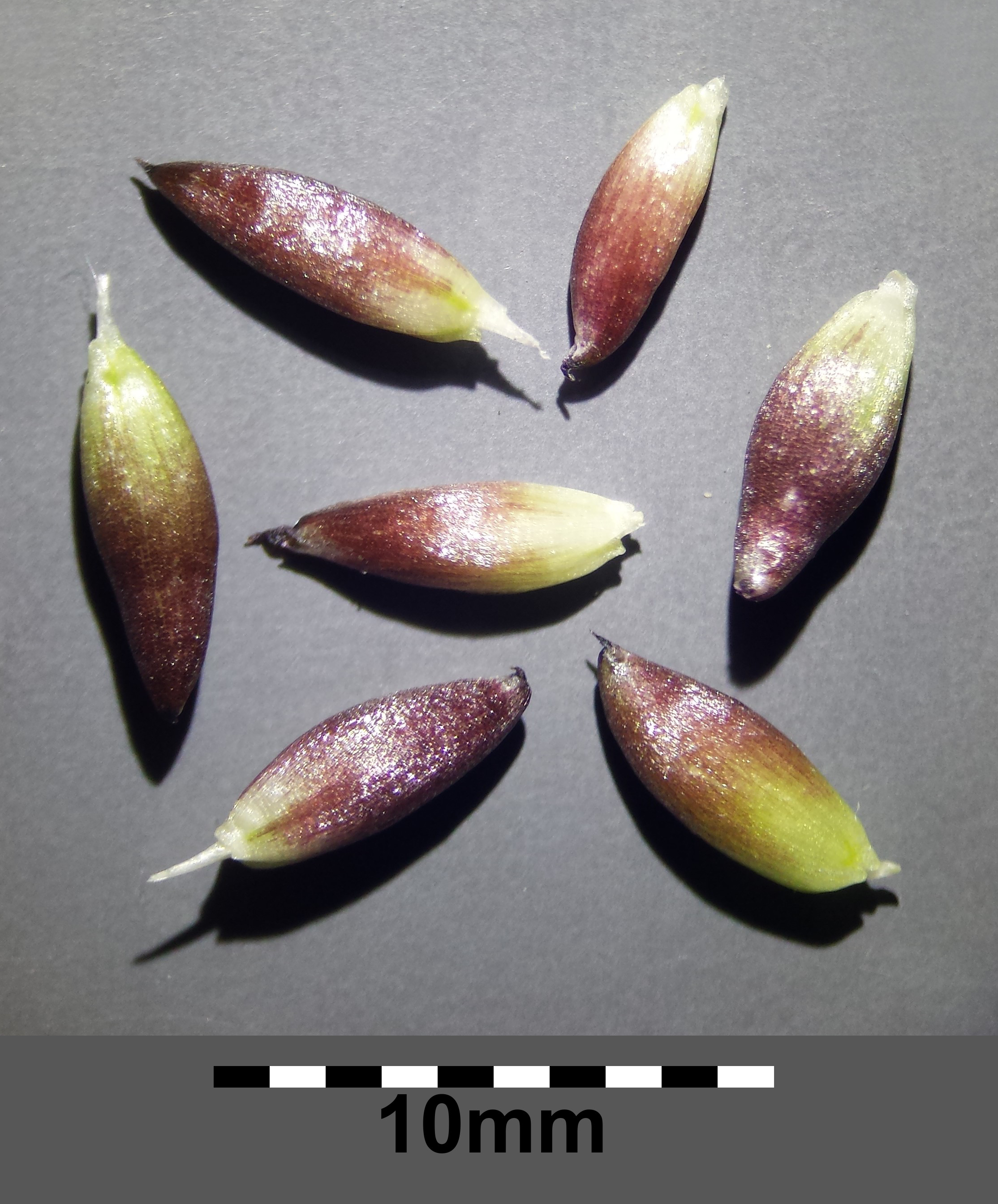 Bulbills Taxonym: Allium oleraceum ss Fischer et al. EfÖLS 2008 ISBN 978-3-85474-187-9 Location: Neue Donau, Vienna-Floridsdorf - ca. 160 m a.s.l. Habitat: dry meadows